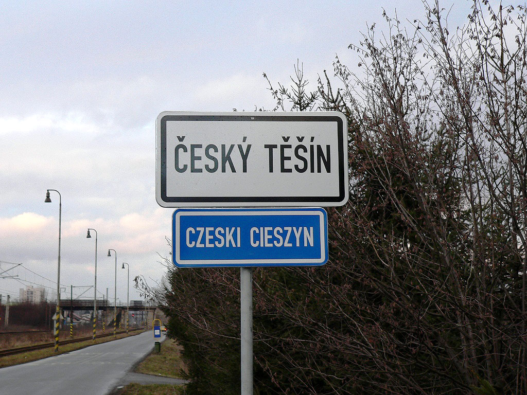 Description: Bilingual (Czech and Polish) signs on the road entering Český Těšín (Czeski Cieszyn). Date: 18 January, 2008 Camera: Panasonic DMC-FZ20 Author: Czesil (my friend)